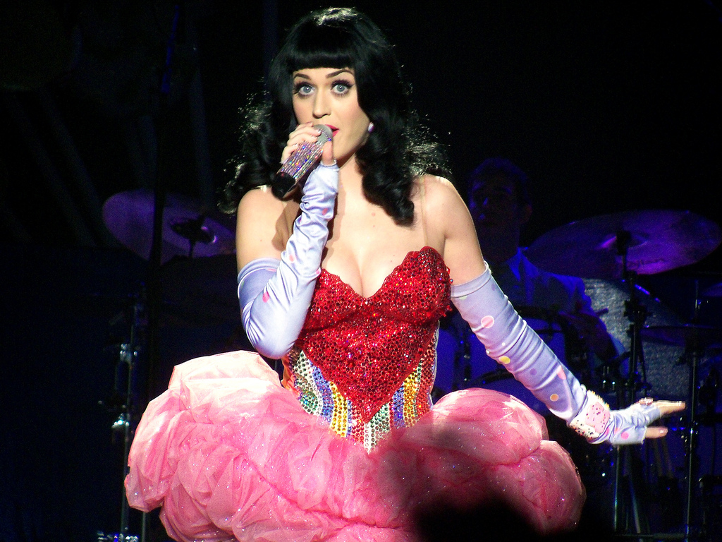 Katy perry in California Dreams Tour in Birmingham